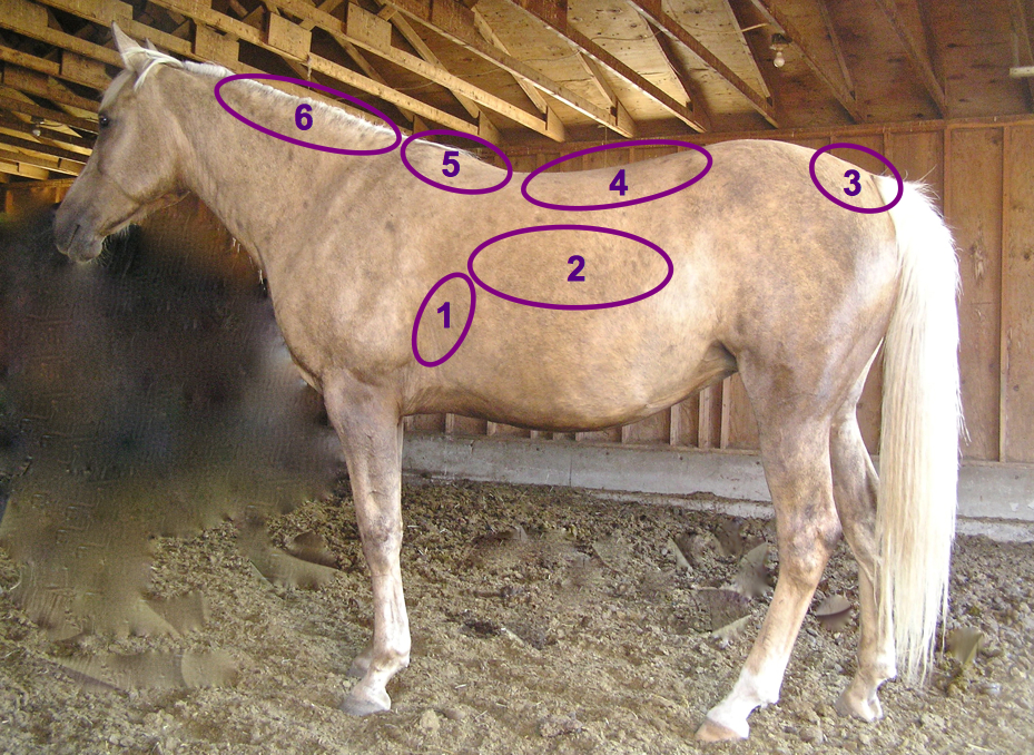 A chart showing where fat deposits accumulate for use in the Henneke horse body condition scoring system. Though there are exceptions, fat is first stored internally around major organs, then usually accumulates predictably in the following order: 1. Behind the elbow (or scapula, to be more precise) 2. Between the ribs 3. Beside the tail head 4. Along the back 5. Over the withers 6. In the neck This horse, though out of condition, is about a 6 Image created independently by uploader based on presentation by Dr. Shannon Moreaux, DVM, Montana State University